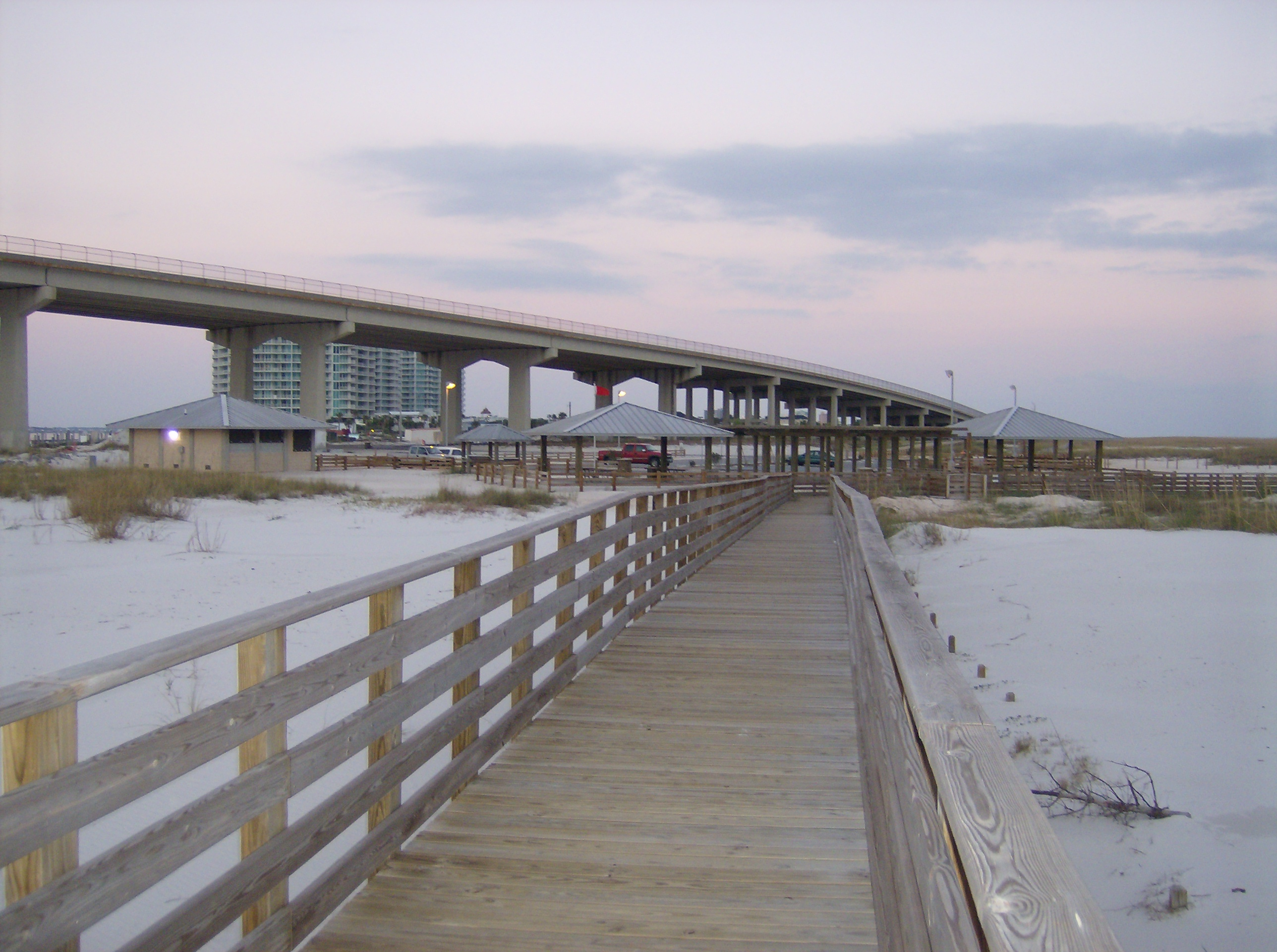 The Alabama Gulf State Park Facility on Florida Point and Bridge at Perdido Pass